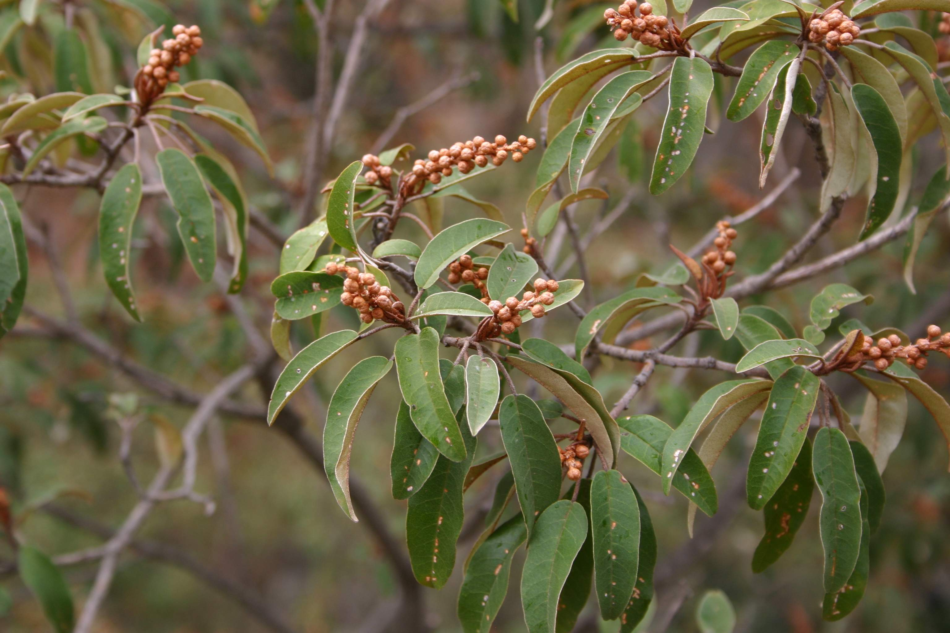 Croton gratissimus flower buds at Hamerkop near Sparkling Waters, Magaliesberg, South Africa